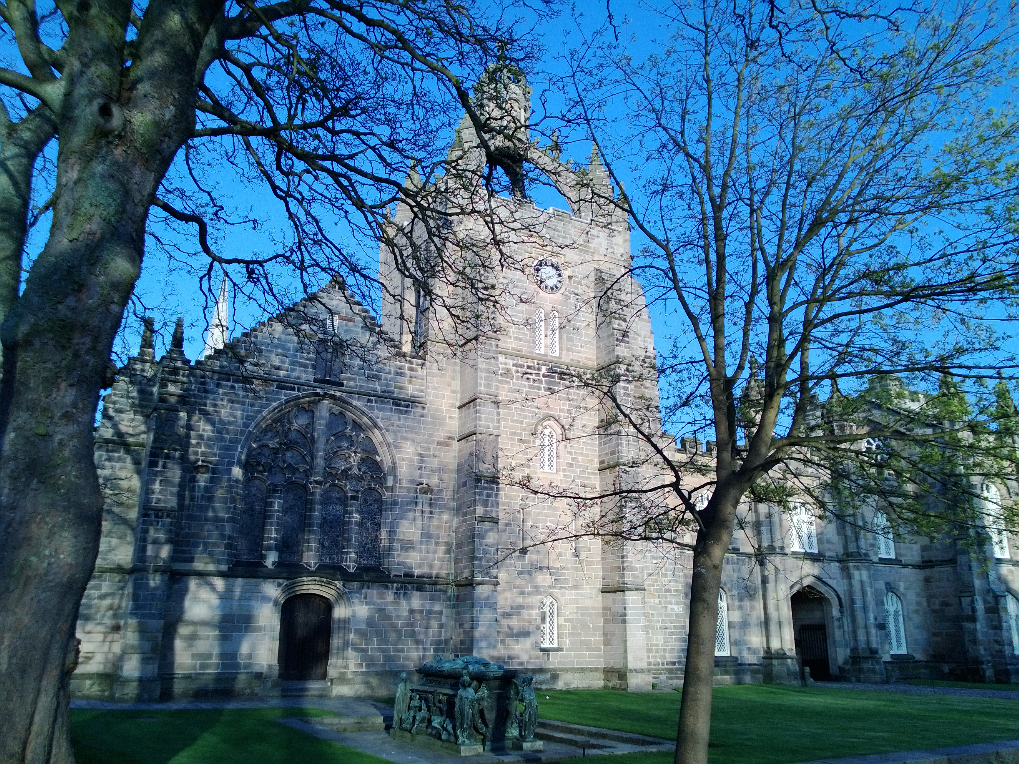 Chapel at Kings College and tomb of Bishop William Elphinstone, at the University of Aberdeen in evening, May 2013